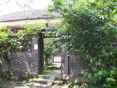 One of the traditional houses in Jinnancun, which was built in 1936, and now is serving as teachers' dormitory for Chongqing Nankai Middle School.